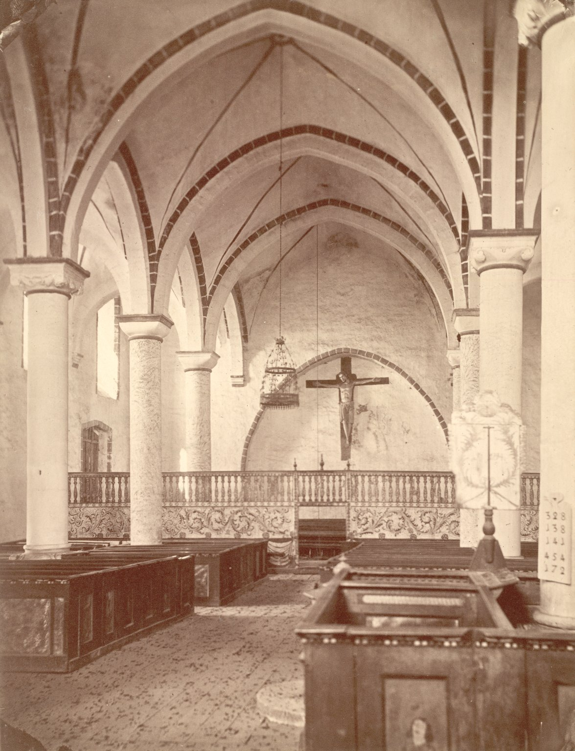 Collection: A. D. White Architectural Photographs, Cornell University Library Accession Number: 15/5/3090.00018 Title: Church interior, Gotland, Sweden Photograph date: ca. 1865-ca. 1895 Building Date: Possibly 12th century Location: Europe: Sweden; Gotland Materials: albumen print Image: 8.5 x 6.5 in.; 21.59 x 16.51 cm Provenance: Gift of Andrew Dickson White Persistent URI: There are no known copyright restrictions on this image. The digital file is owned by the Cornell University Library which is making it freely available with the request that, when possible, the Library be credited as its source. We had some help with the geocoding from